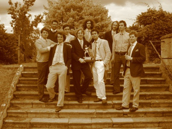 The Myrmidon Club at their 2007 garden party in Fellow's Garden, Merton College.